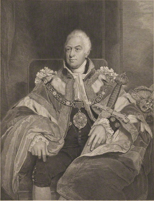 Sir William Domville, 1st Baronet, born 26 December 1742 in St Albans, and died 8 February 1833, by Philipp Audinet, after William Owen, line engraving, 1814 or after